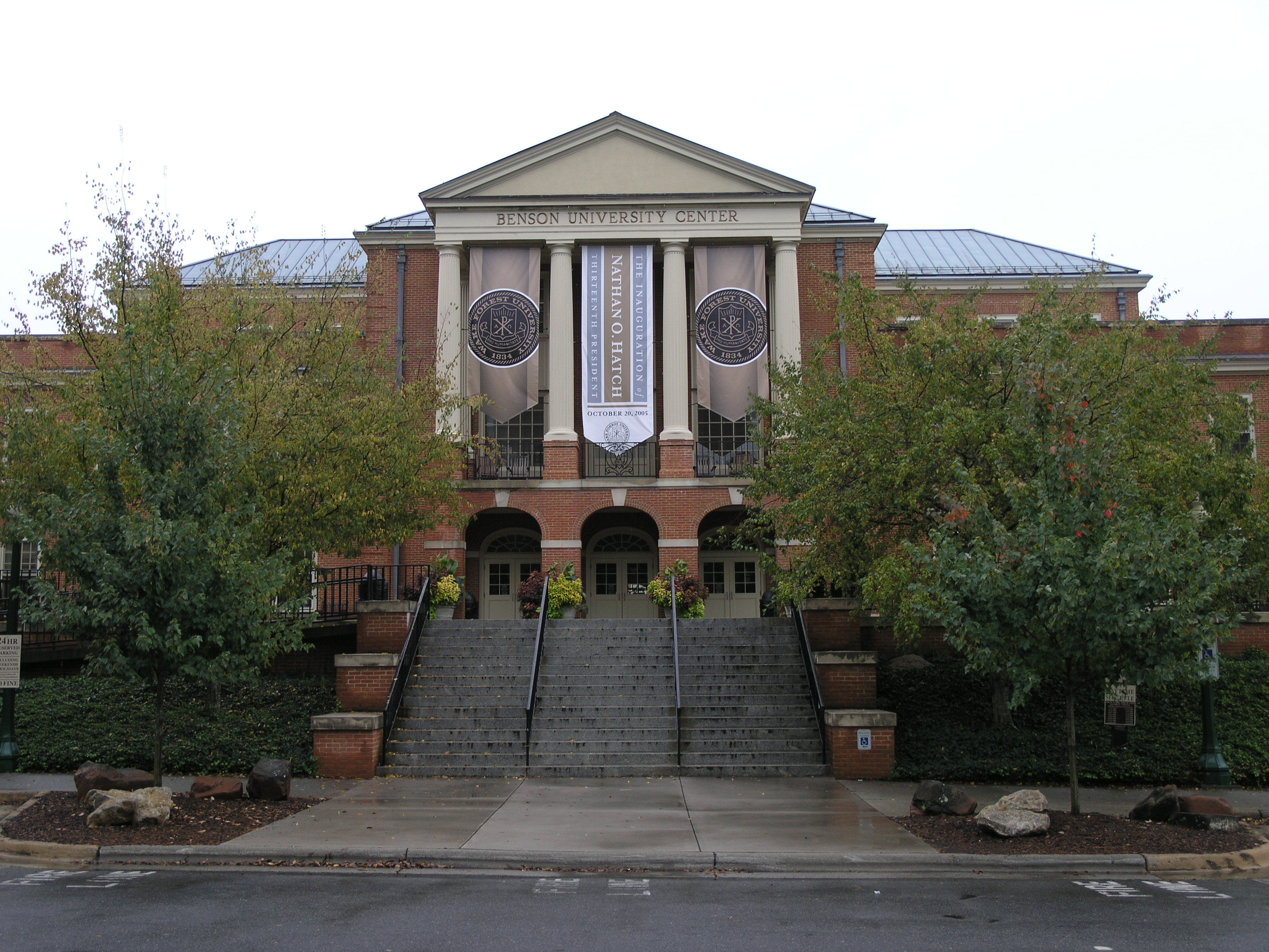 Benson University Center, at Wake Forest University, shortly before the inaguration of Nathan Hatch.